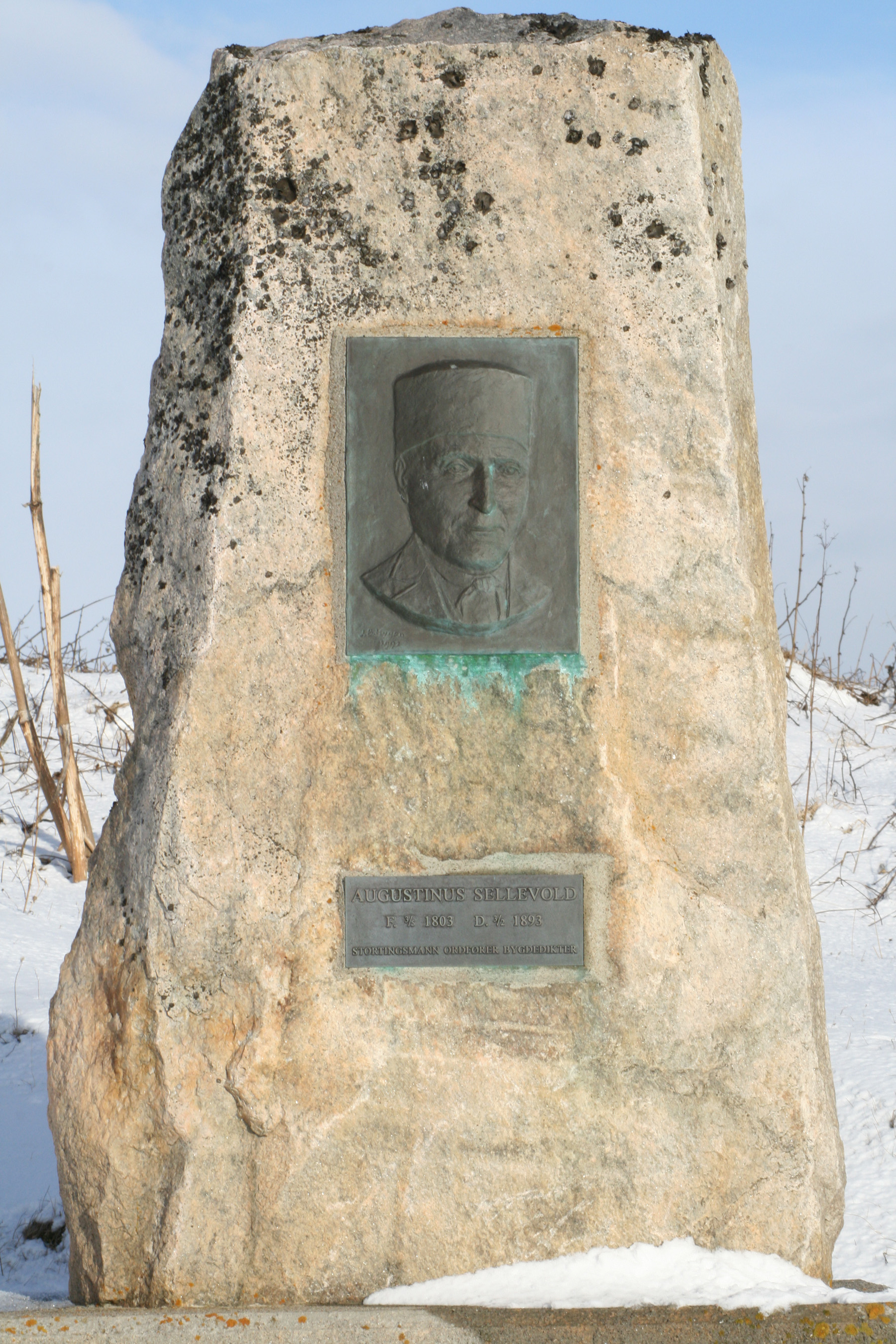 Memorial of Augustinus Johannessøn Sellevold (member of the Norwegian Parliament, mayor and poet) at Dverberg church on Andøya in Nordland county, Norway